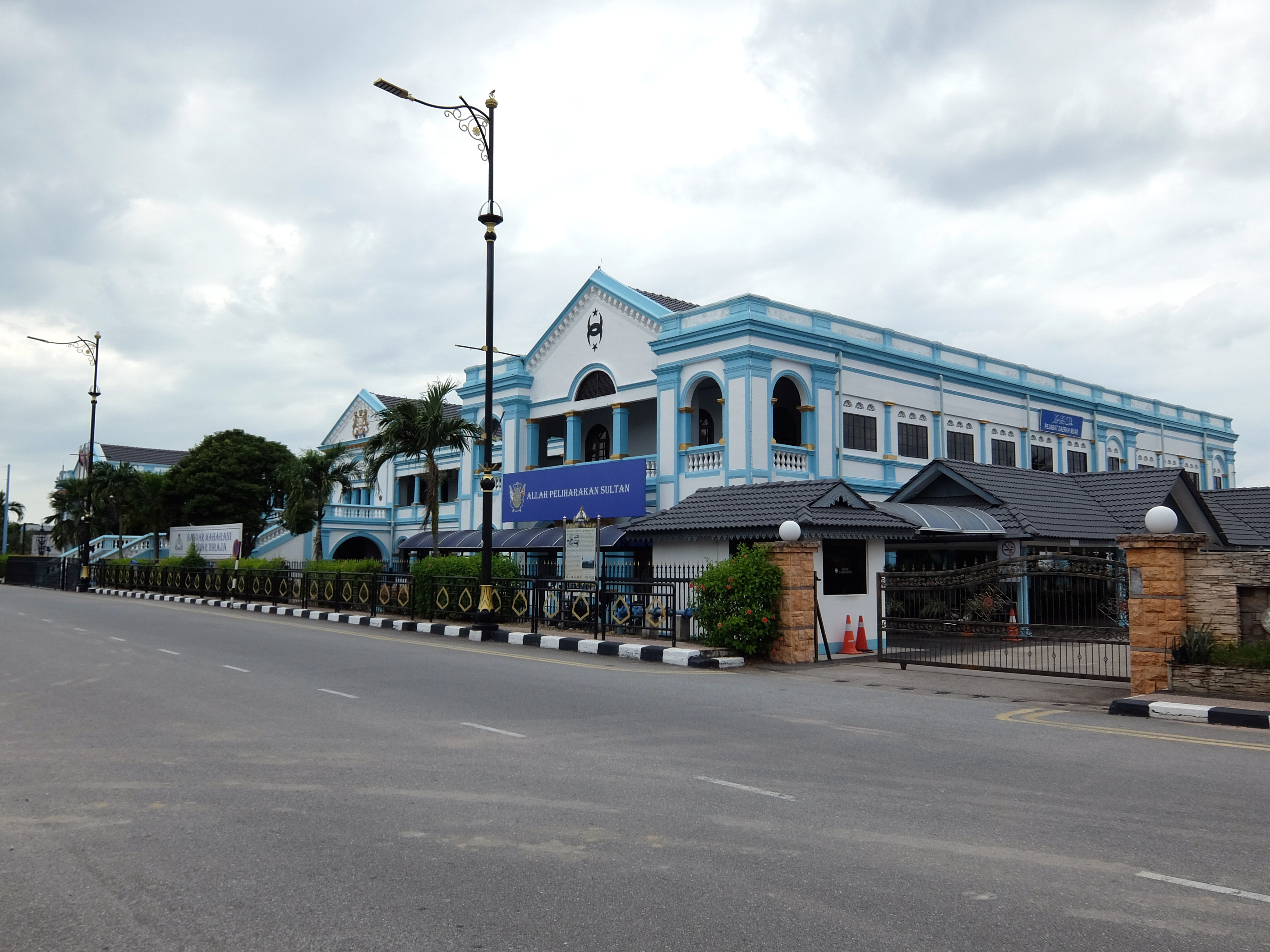 Sultan Abu Bakar Building, Bandar Maharani, Muar, Johor, Malaysia